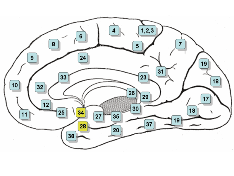 Gray - Brodman - Entrorhinal Cortex (EC) Image:GNUFDLG.png